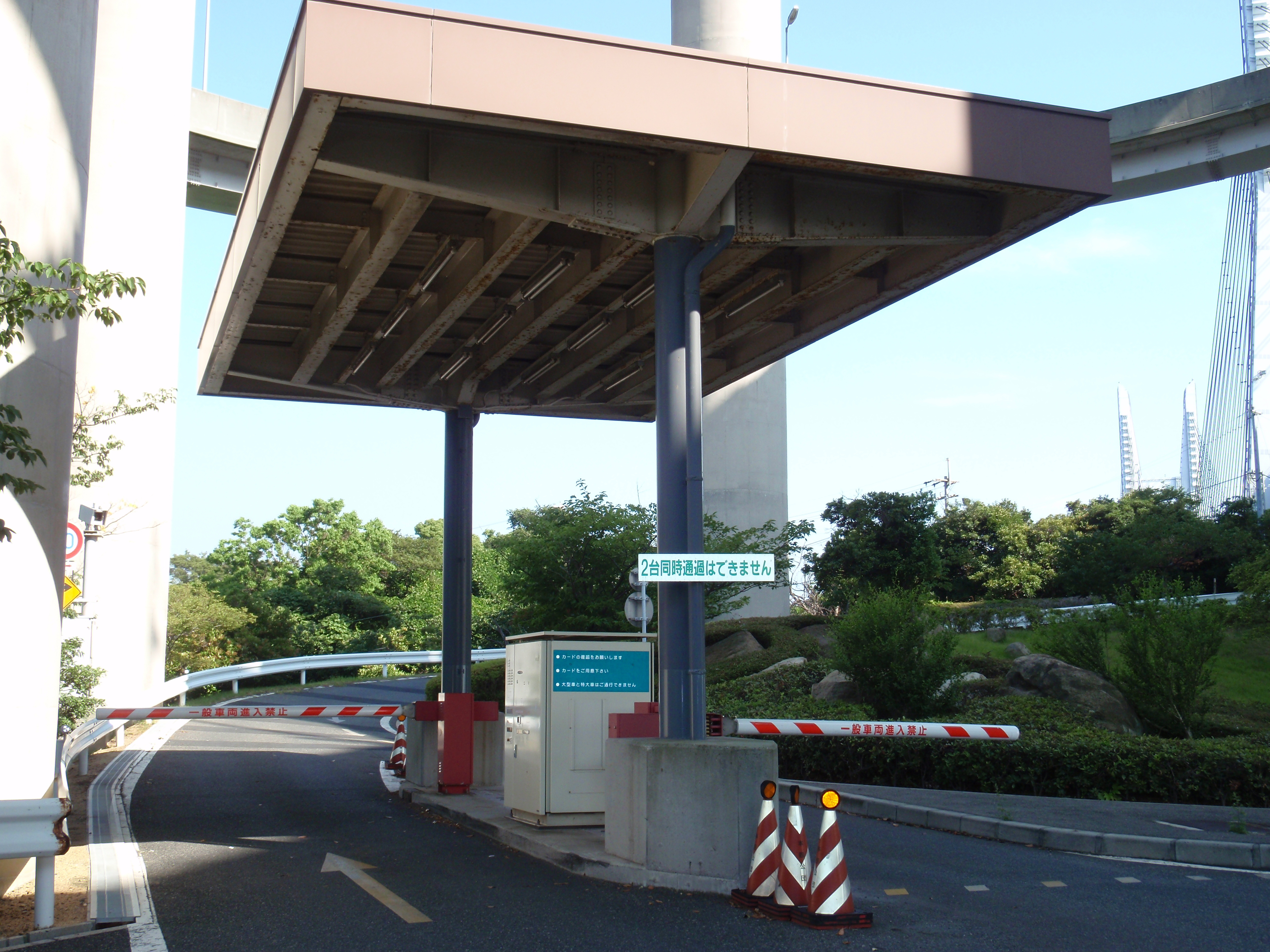 Entrance gate at Iwakurojima Interchange